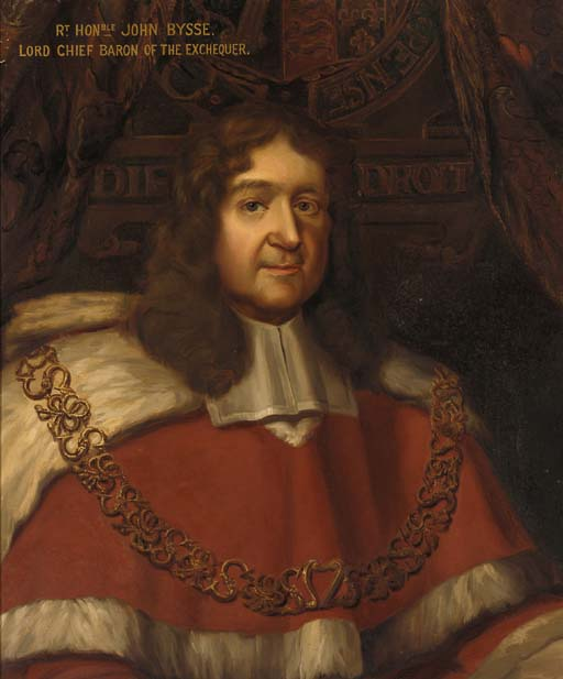 Painting by Sir James Thornhill (1675-1734) of John Bysse, Chief Baron of the Irish Exchequer (c 1602-1680). Thornhill's painting is presumably a copy of a contemporary likeness.